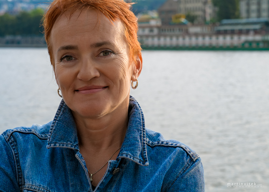 Tereza Bouckova, Czech writer